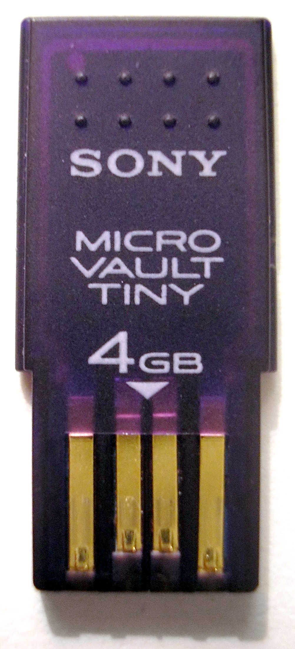 Photo of a USB Flash drive (Sony Micro Vault Tiny 4 GB).